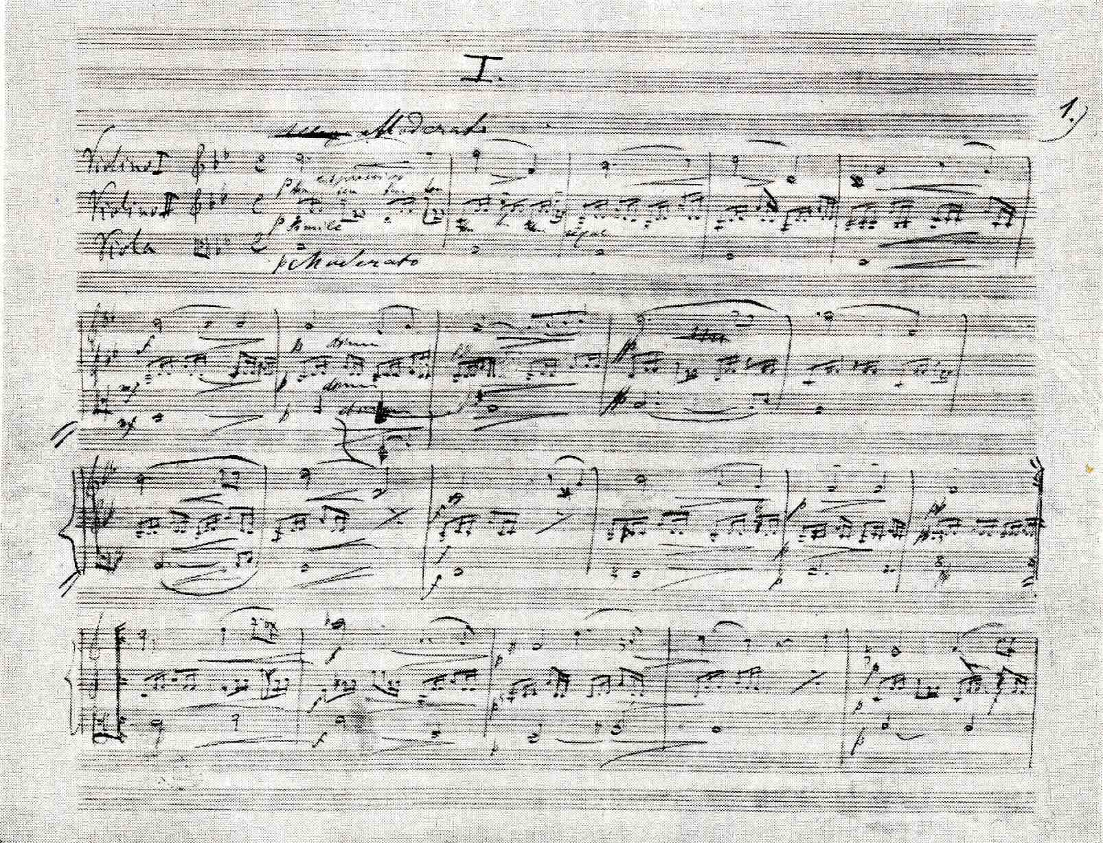 The title page of the Miniatures for Two Violins and Viola, later arranged as Romantic Piceces for Violin and Piano